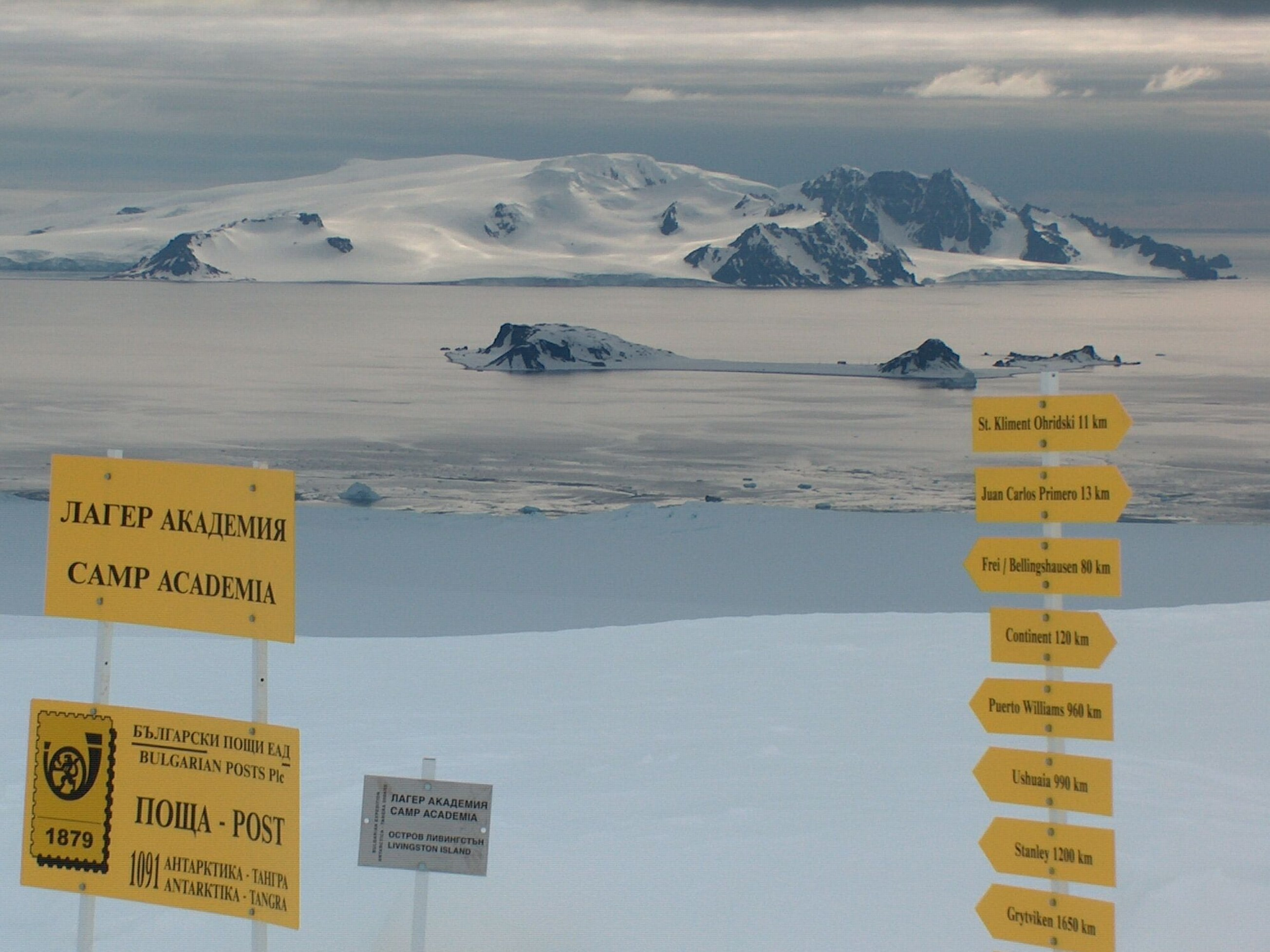 Breznik Heights is in the southeast area of Greenwich Island. source: Lyubomir Ivanov